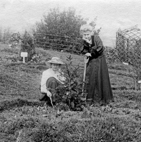 Marie Naylor planting tree with Mary Blathwayt 1910. This picture was taken by Colonel Linley Blathwayt and was stored on glass negatives. The Blathwayt's home of Eagle House way the home of Linley, Emily and Mary Blathwayt who all actively supported the suffragette cause. Nearly all the prominient UK suffragettes stayed with them and these photos and dozens of trees were planted to commemorate their visits. Col. Linley Blathwayt took these pictures between 1908 and 1912. He died in 1919. The pictures are made available in larger formats by .